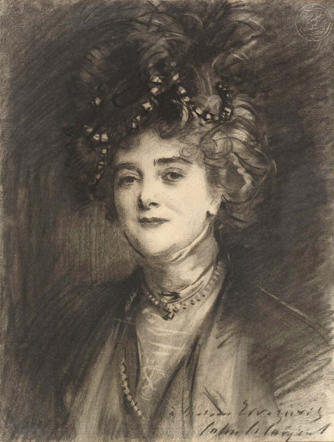 Eugenia Errázuriz, wife of José Tomás Errázuriz, a Chilean landscape painter. 61 by 47 cm signed John S. Sargent and inscribed indistinctly lower right charcoal on board ca. 1905